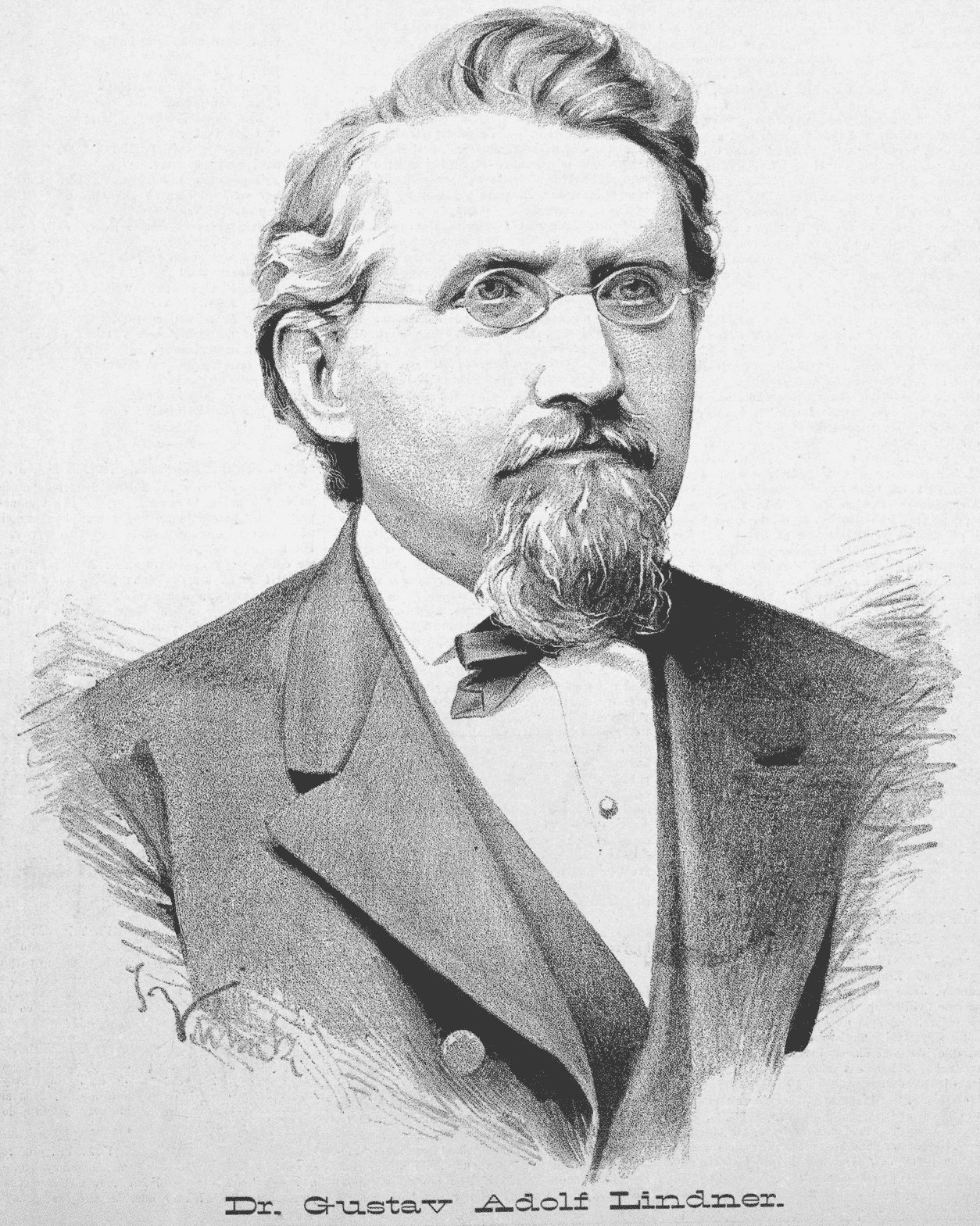 Portrait of Gustav Adolf Lindner, Czech educator (considered the second most important in Bohemia after Comenius)